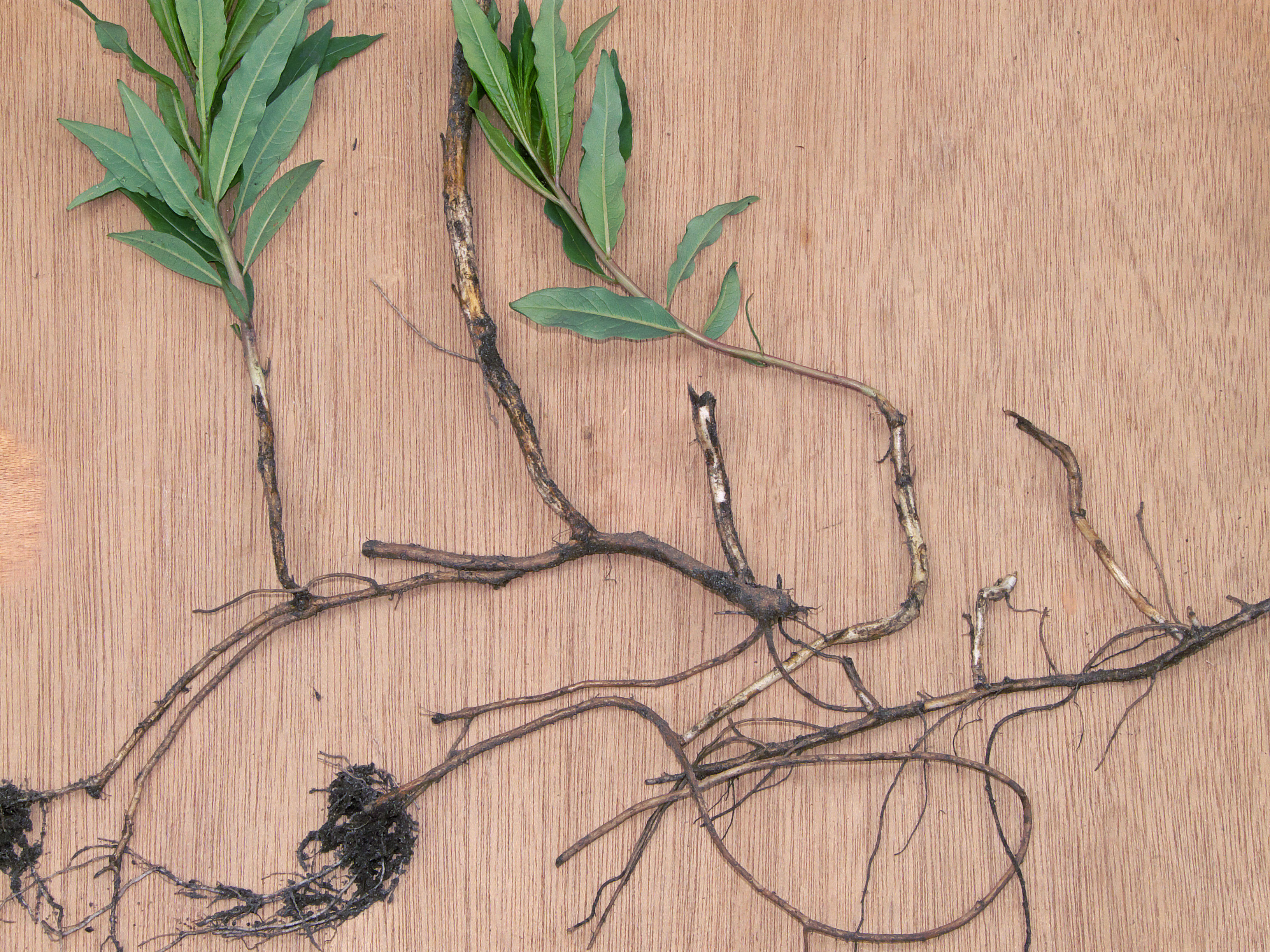 Chamerion angustifolium rhizomes